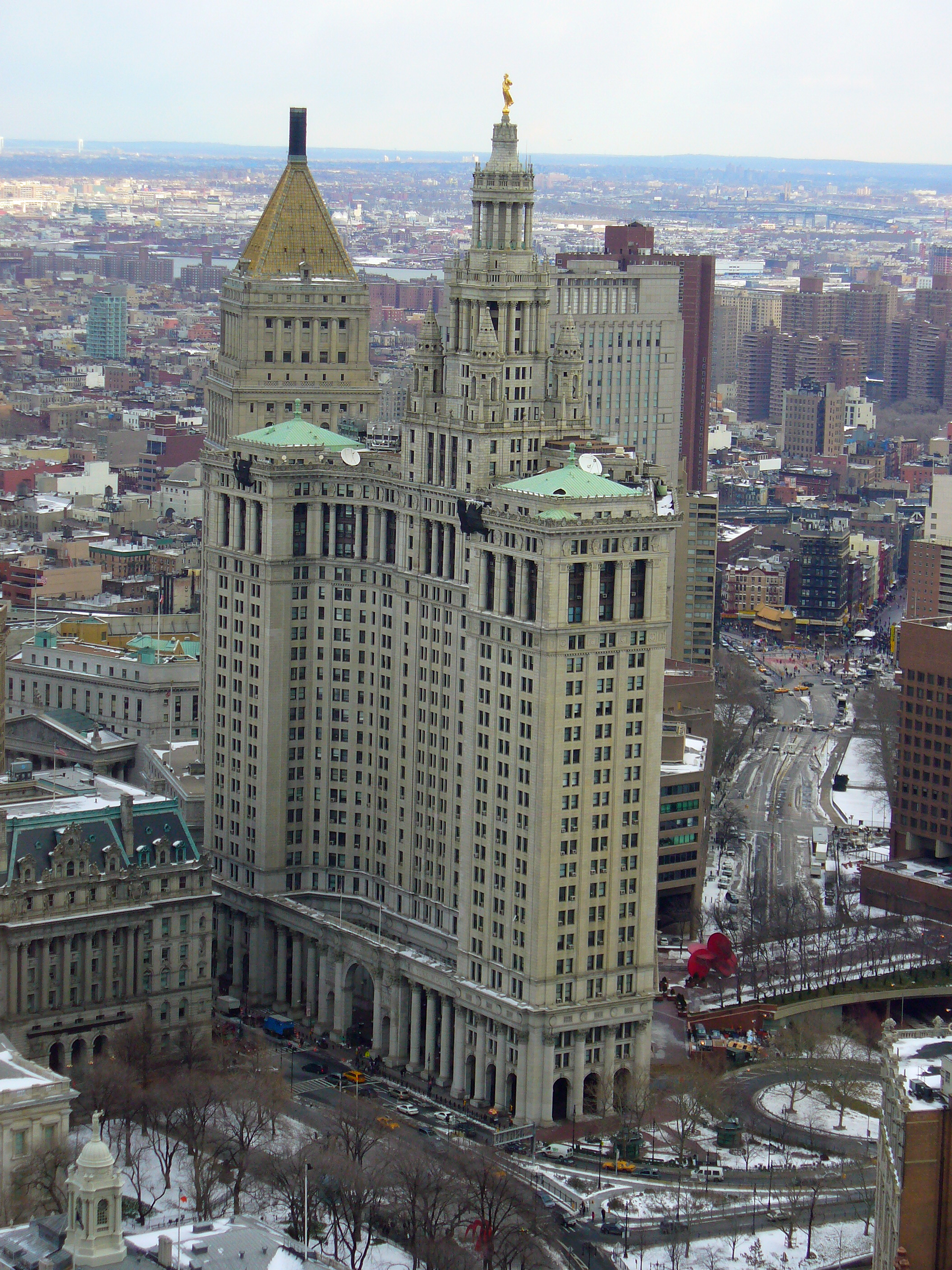 Looking east-northeast at Manhattan Municipal Building. Confucius Plaza in Chinatown is seen behind the building. Cooperative Village in the background on the right. Walkway on right crosses Park Row to One Police Plaza. East River in far background.